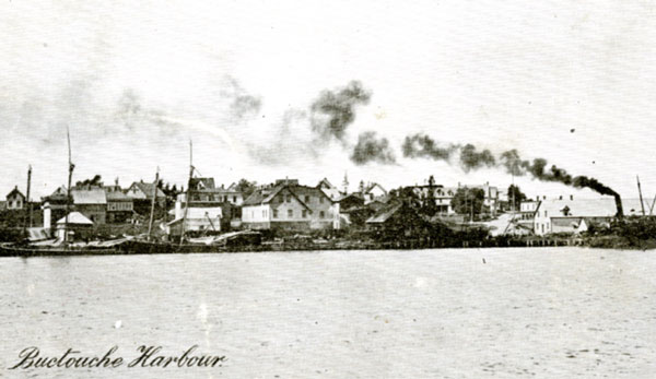 Postcard of Bouctouche Harbour, ca. 1930. Provincial Archives of New Brunswick number P608-NB3-051.